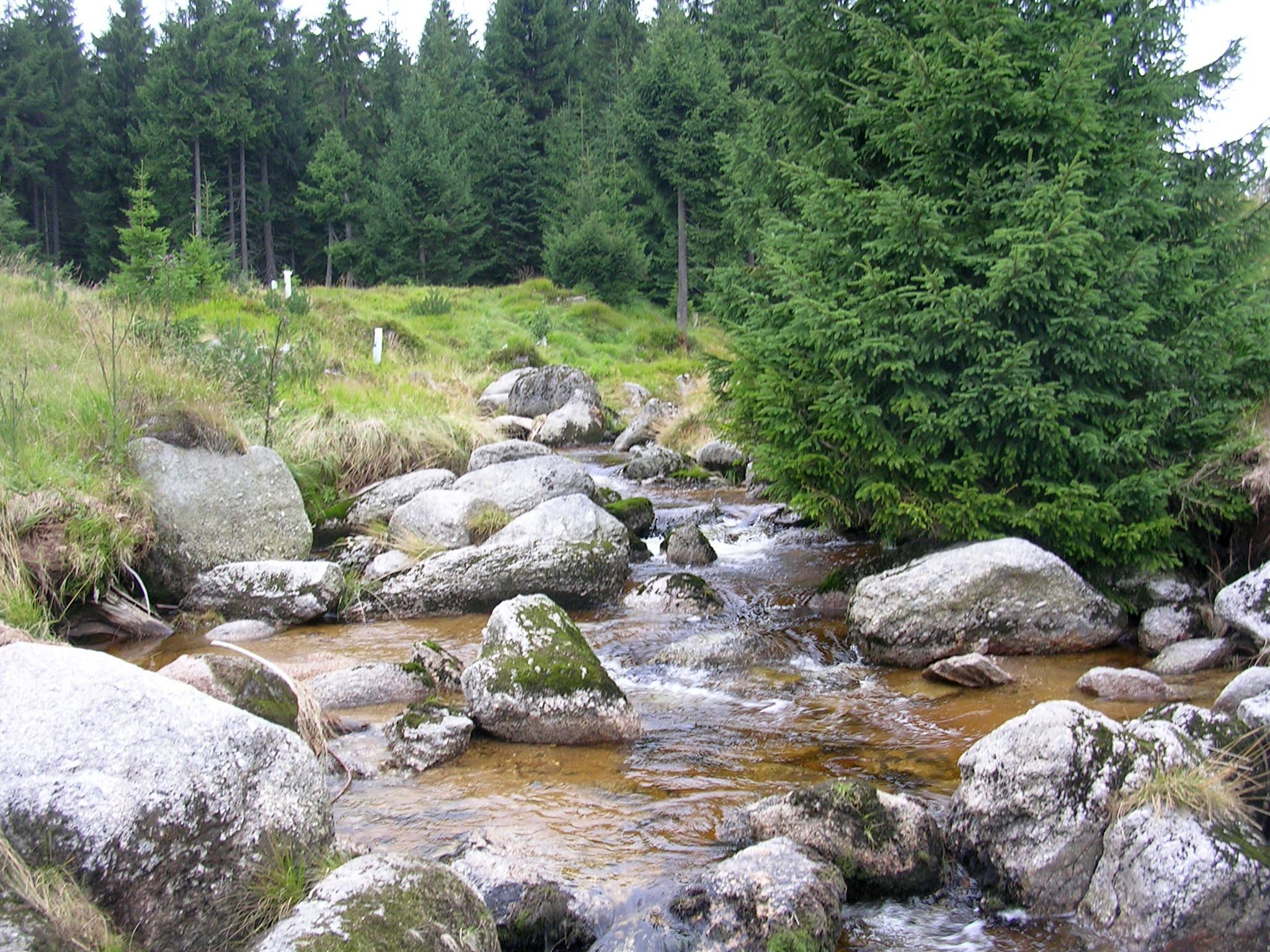 Bílá Desná River, Jizera Mountains. A borderline of municipalites Hejnice and Albrechtice v Jizerských horách.